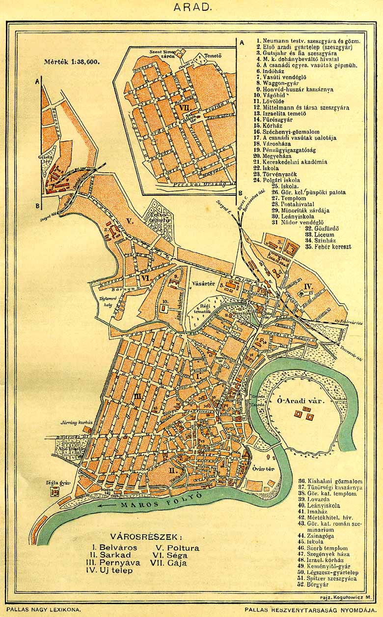 Map of Arad in Pallas encyclopedia